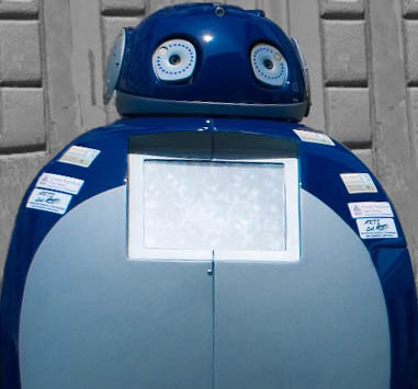 Picture of the three robots (two of DustCart and one of DustClean type) that form the demonstrated Dustbot system.